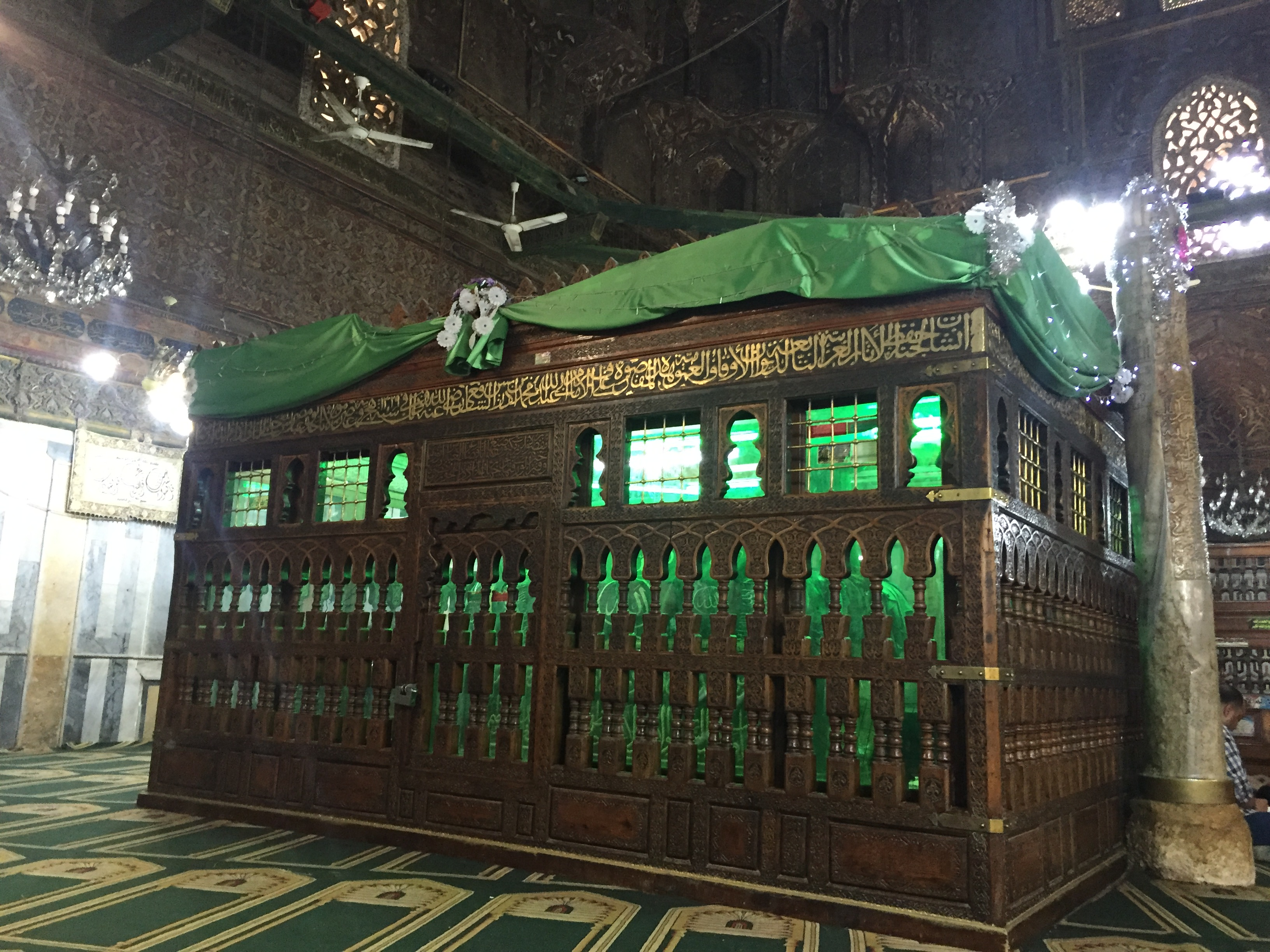 Imam Shafii Tomb, Cairo, Egypt